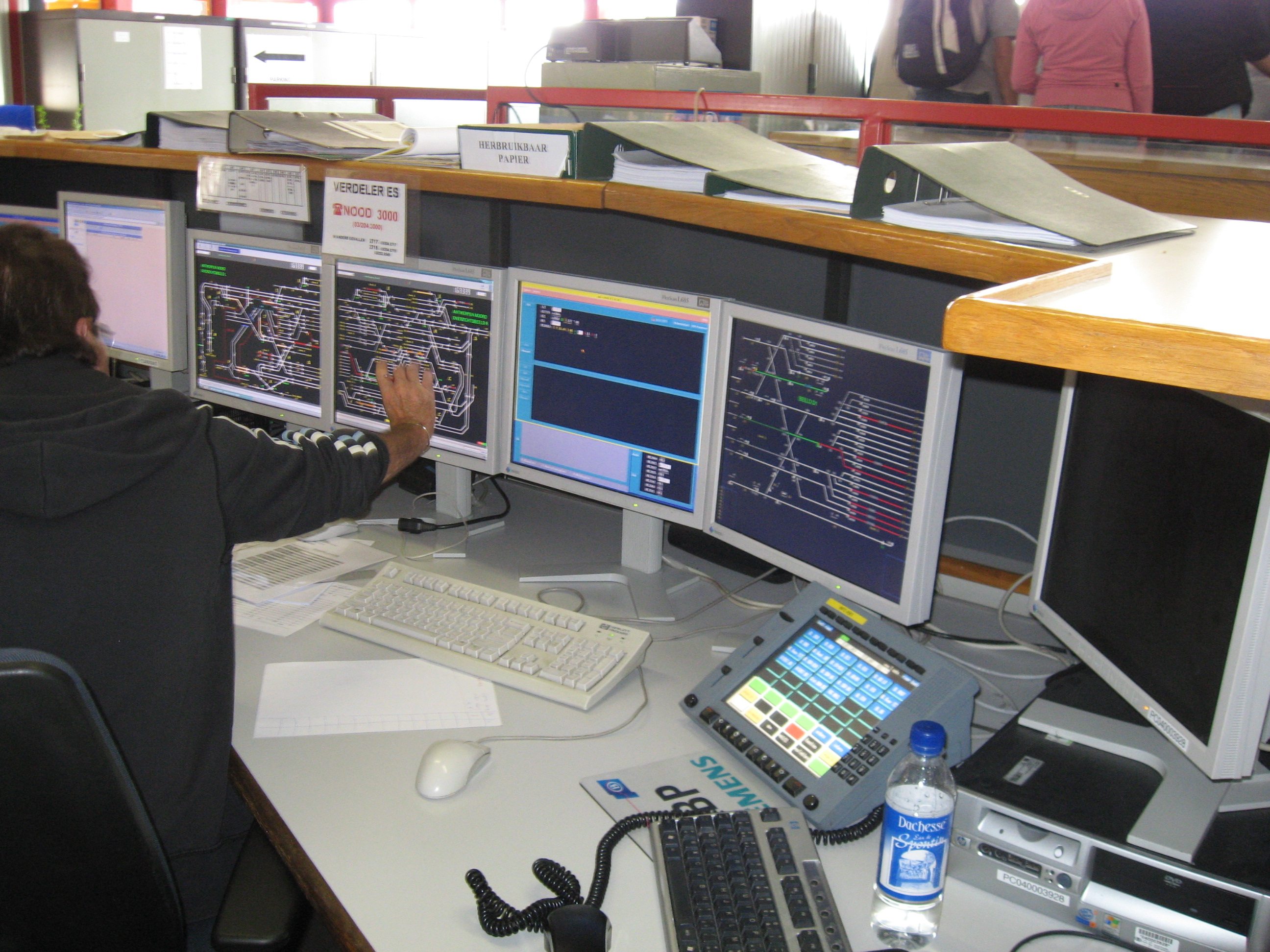 Antwerpen-Noord signal box, during an open day visit. The system shown is EBP (Elektronische Bedien Post), made by Siemens.